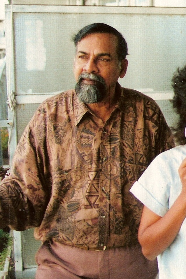 Shrinivási in 1989 in Amsterdam. The picture has been cropped from File:ShriniCandaniVerlooghen.jpg